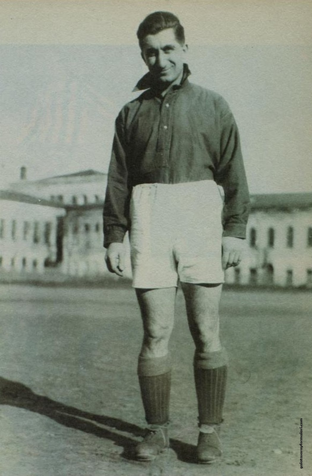 Nihat Bekdik